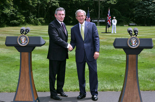 President George W. Bush shakes hands with United Kingdom's Gordon Brown at Camp David on July 30, 2007. (White House photo by Chris Greenberg)